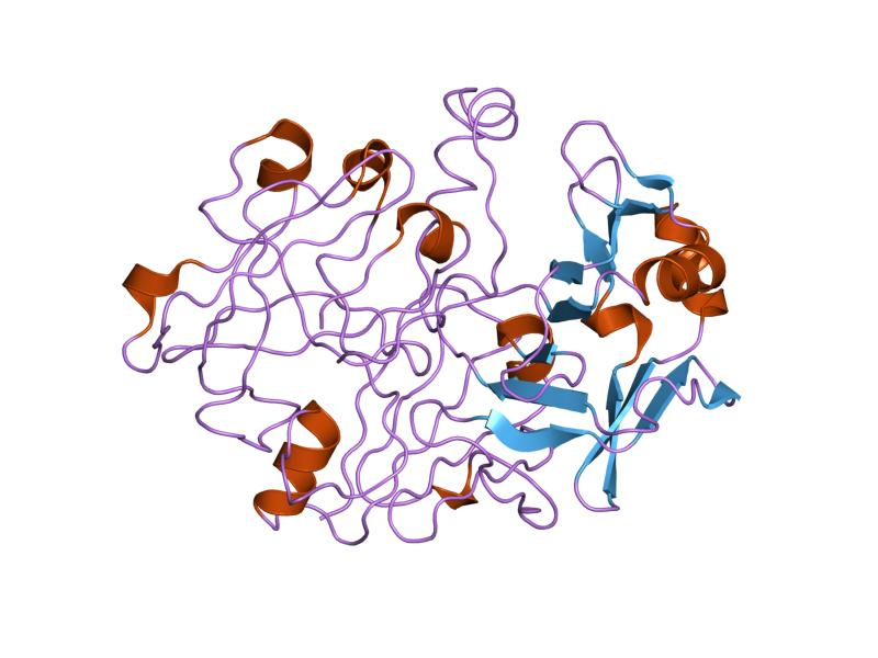 Cartoon representation of the molecular structure of protein registered with 1htr code.